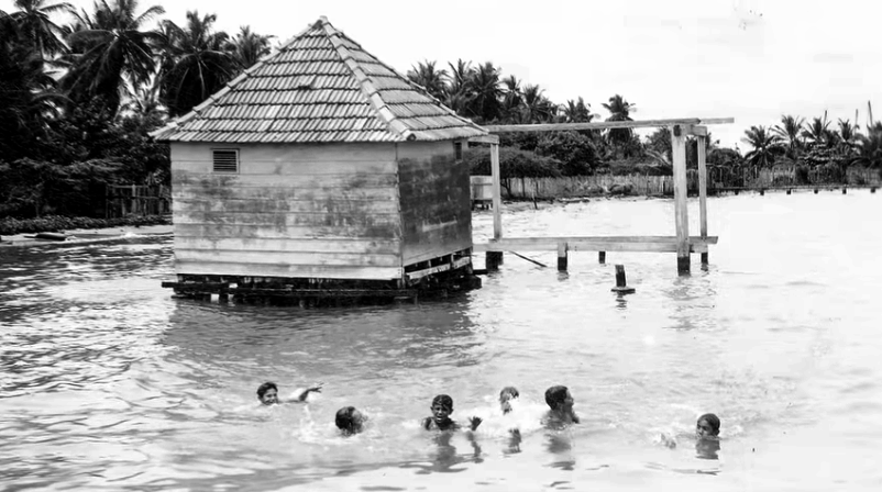 ZPA image of boys bathing in lake maracaibo 1890s used in reconstruction of film Muchachos bañandose en la laguna de Maracaibo